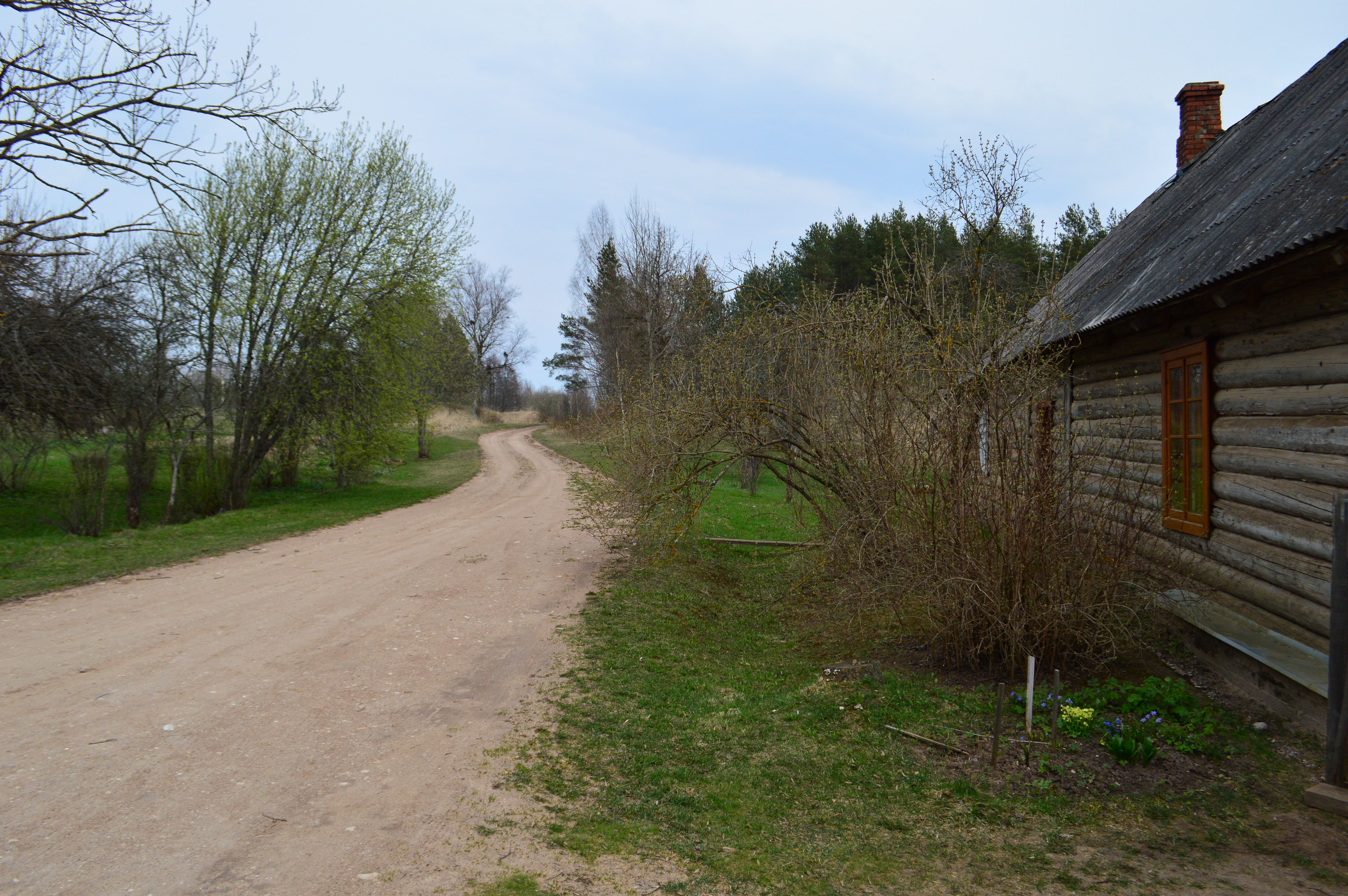 Road in Sviļpova village next to the culture-historical museum "Vieršukolns".